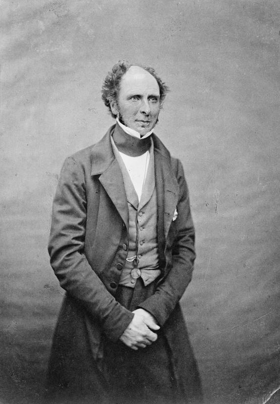 Crimean War 1854-56 Major General William Lord De Ros, Deputy Lieutenant of the Tower of London who was Quarter Master General of the Forces under Lord Raglan in the Crimea.